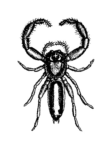 Dorsal view of female Cynapes baptizatus (=Salticus baptizatus) from Rodrigues.